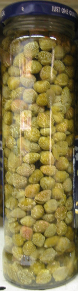 Pickled capers in Georgia This image was created by Whitebox, and is licensed under the following license